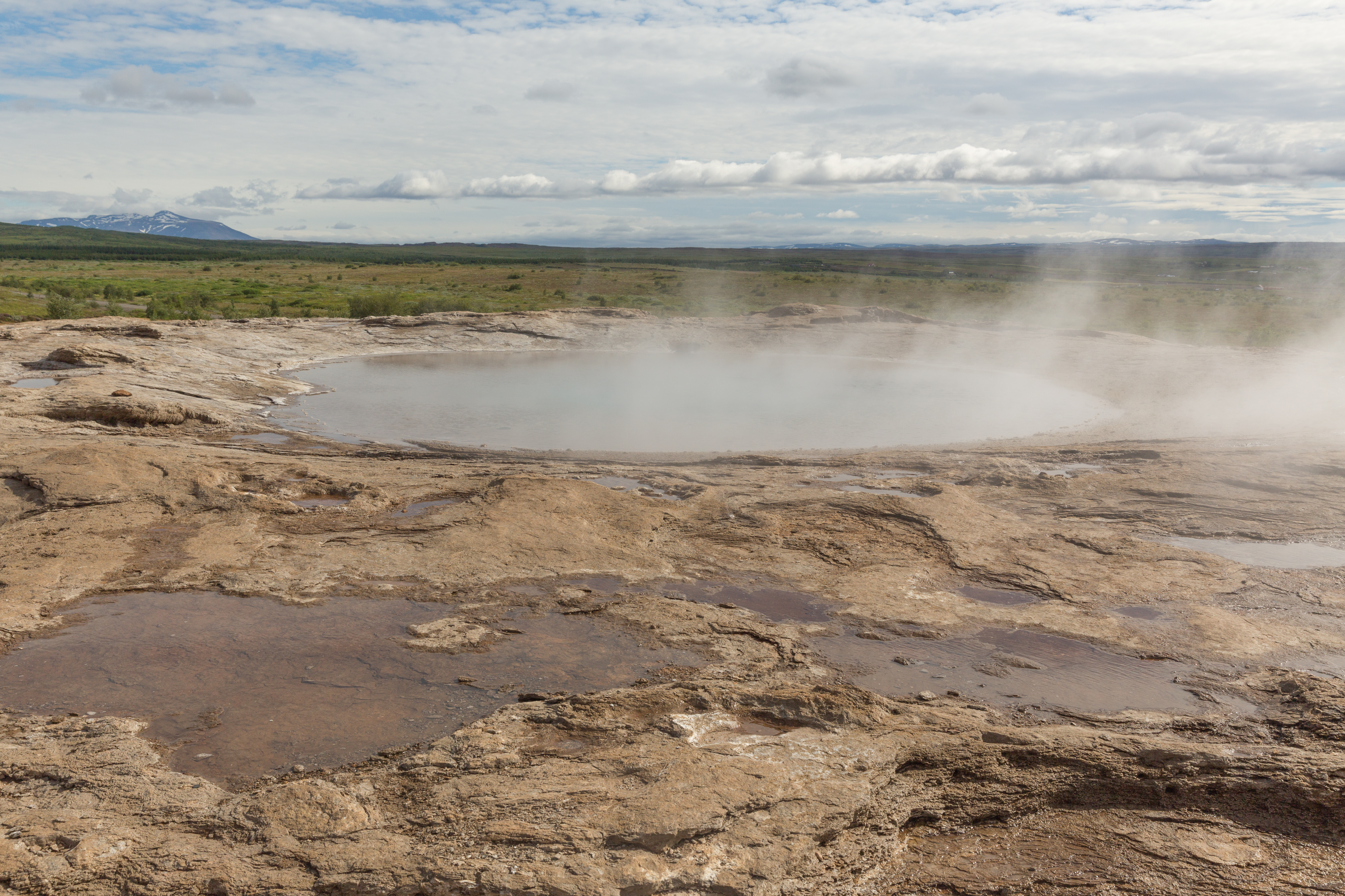 Geysir (Great Geysir) 2015-08-09